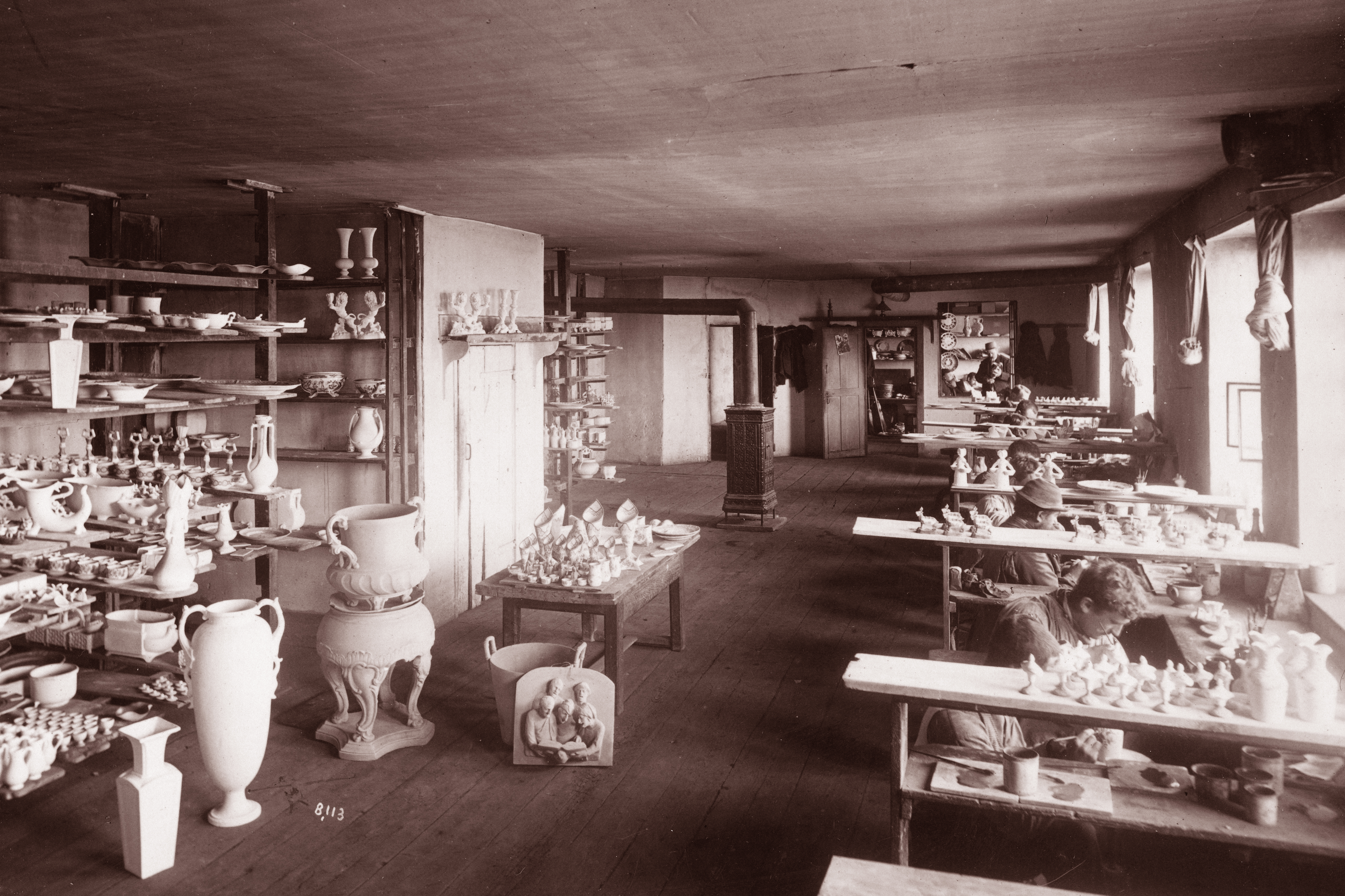 Painters in 1892 at the Lunéville pottery